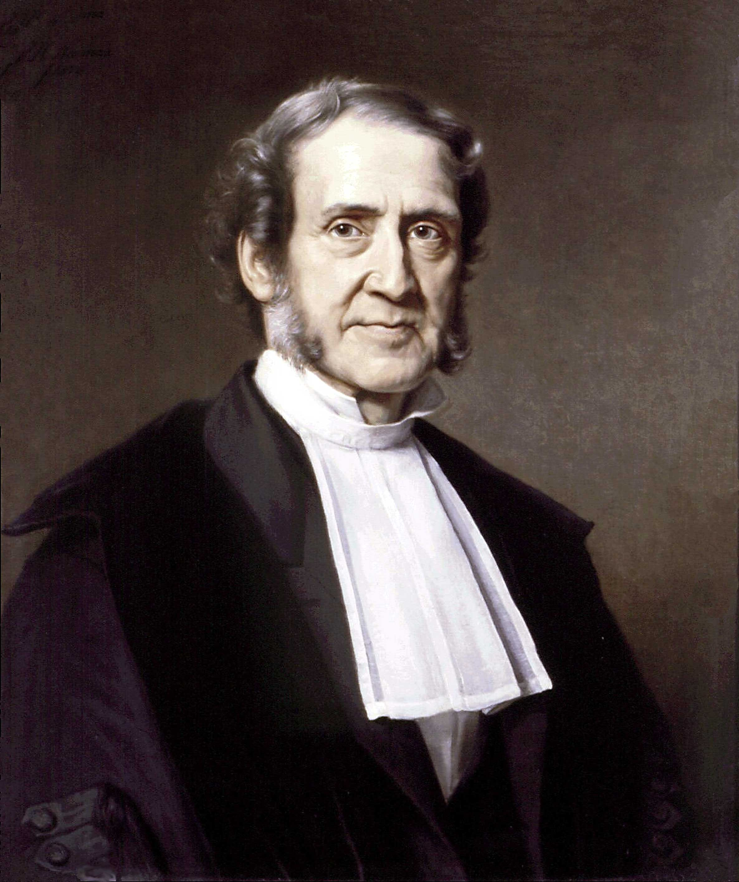 Richard van Rees (1797-1875), Dutch mathematician and physicist